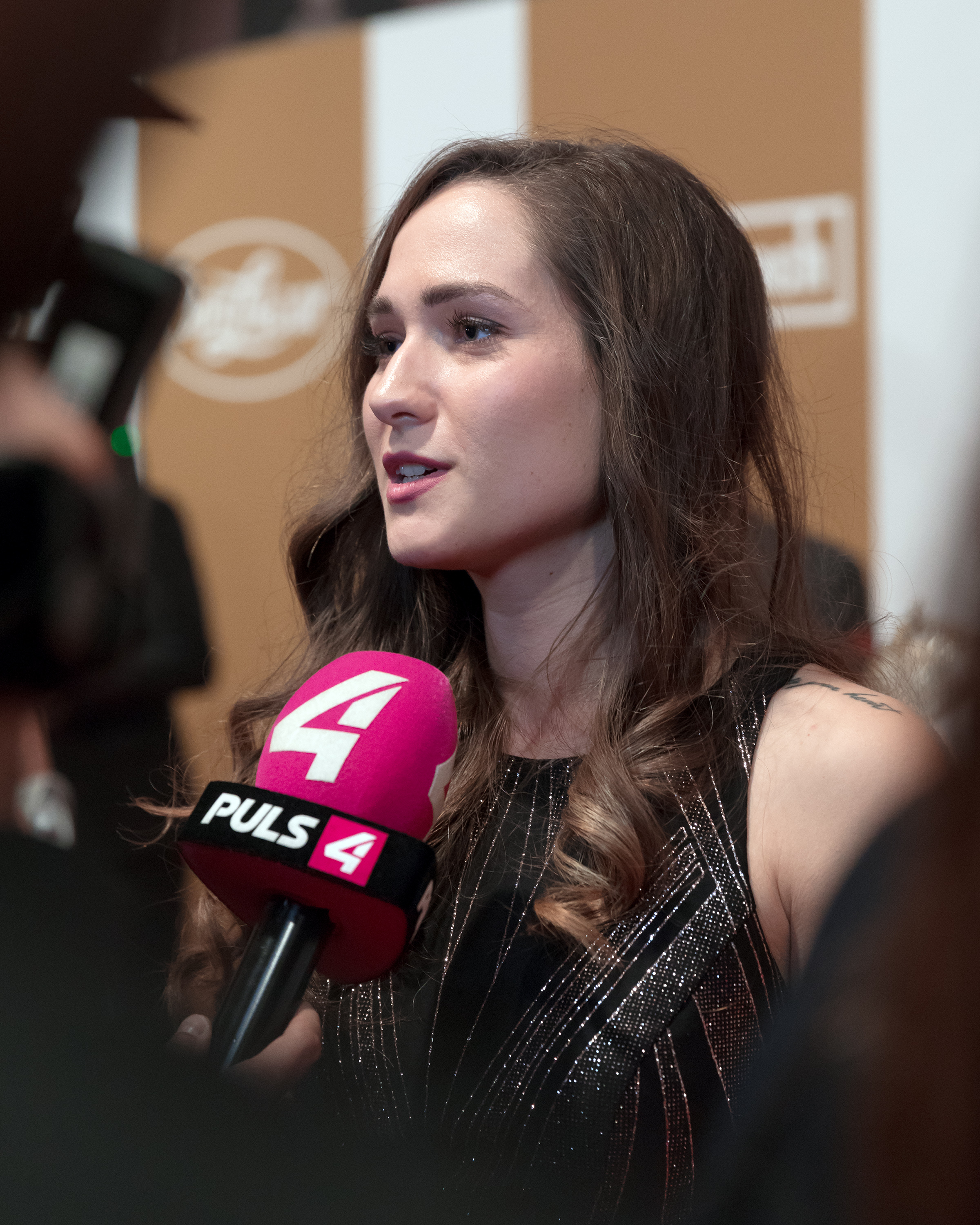 Jasmin Eder, as a member of the Austrian women's national football team part of the Austrian Sports Team of the Year 2017, at Marx Halle (Sankt Marx, Vienna, Austria).